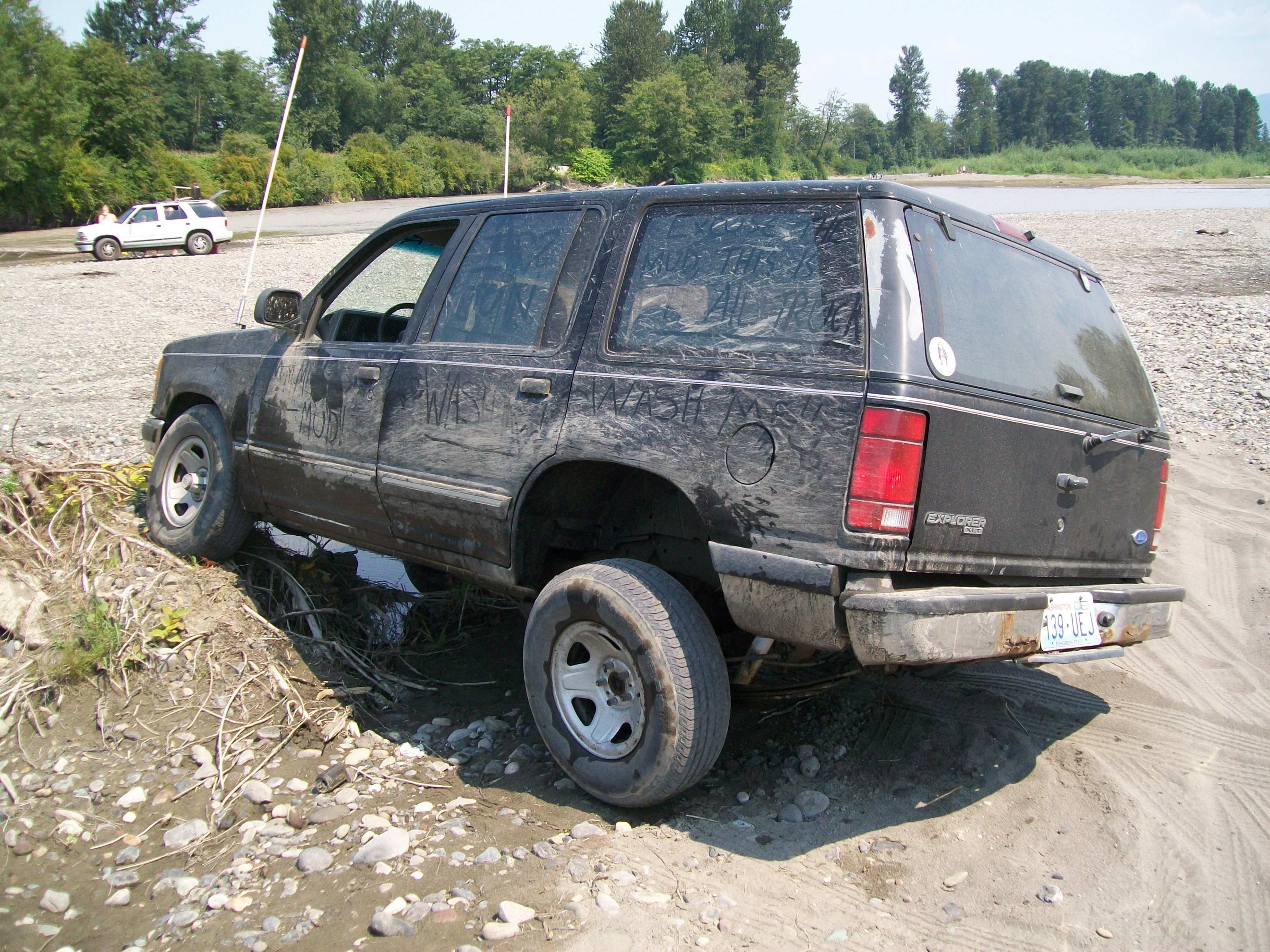 A 1992 Ford Explorer with the front and rear anti-sway bars removed is shown here off-roading. Removing the anti-sway bars was a popular modification to these vehicles